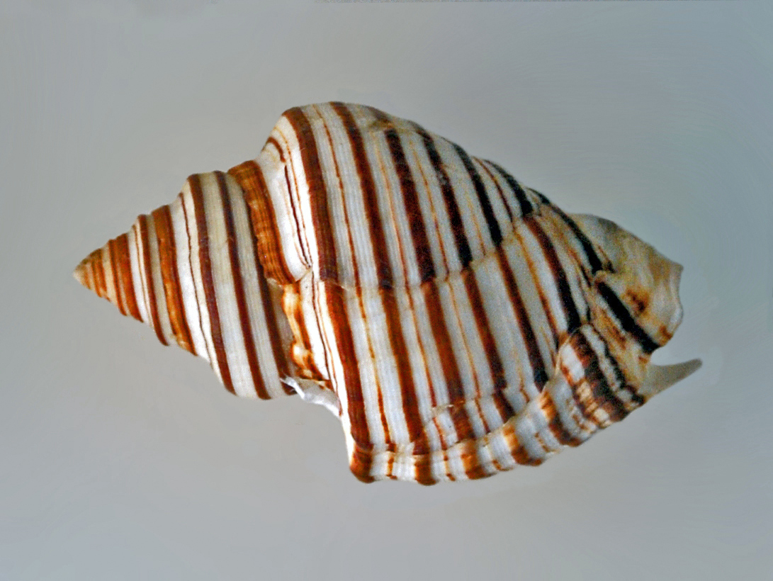 A shell of Opeatostoma pseudodon, on display at the Museo Civico di Storia Naturale di Milano